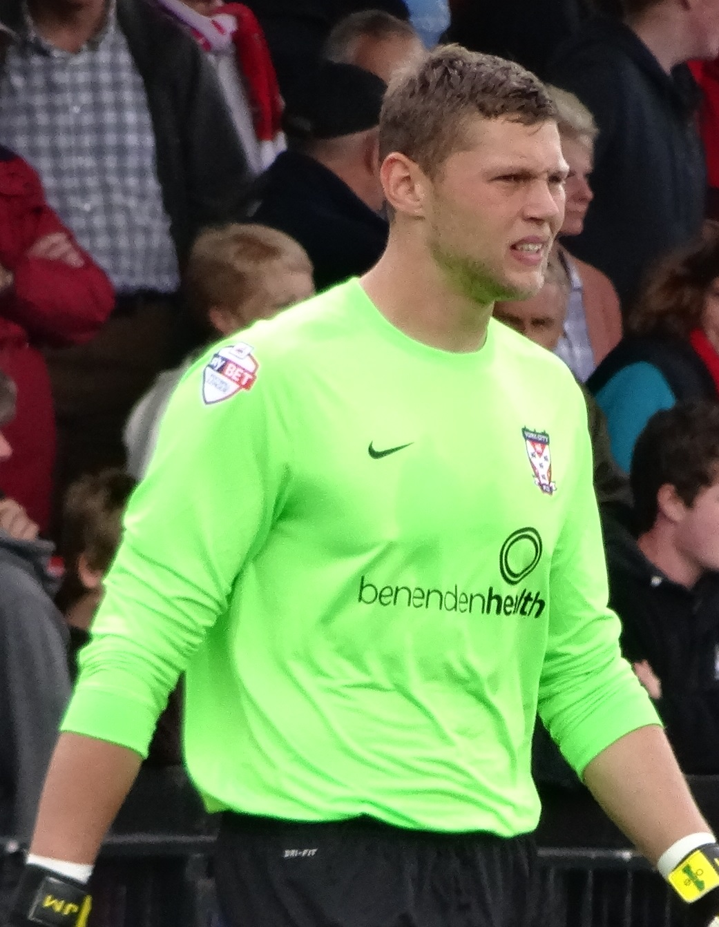 Jason Mooney playing for York City against Northampton Town at Bootham Crescent, York on 16 August 2014